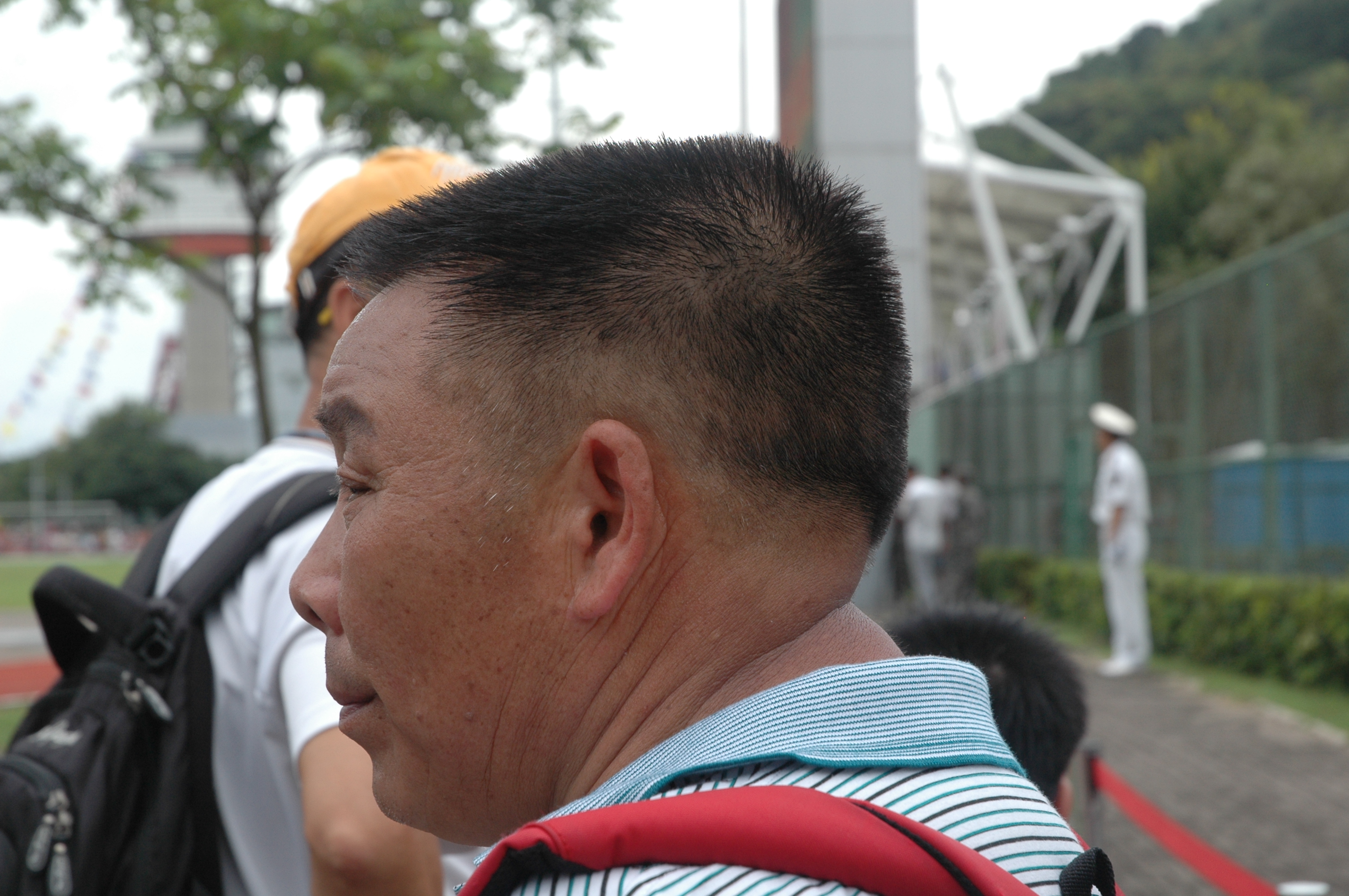 中國大陸男子間常見之方形平頭裝髮型 Rectanglar flattop hairstyle usually seen within gentlemen in mainland China